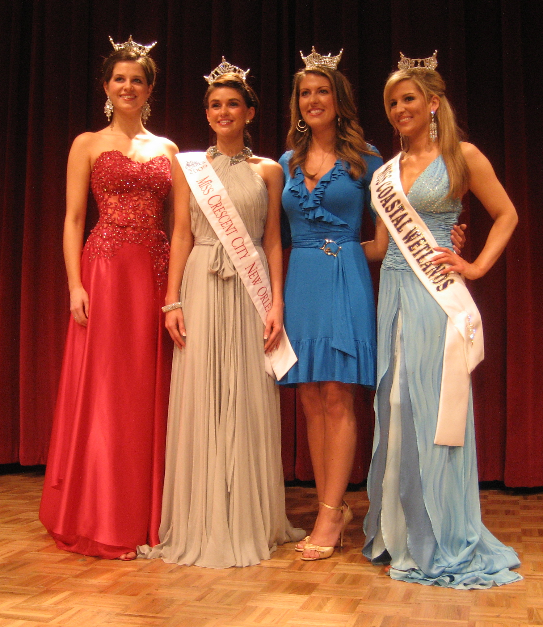 Pagent titleholders at Miss Crescent City pageant (New Orleans preliminary for Miss Louisiana and Miss America). Left to right: outgoing Miss Crescent City New Orleans 2008, Hope Anderson; new Miss Crescent City New Orleans 2009, Lacy Thibodeaux; Miss Louisiana, Blair Abene; Miss Coastal Wetlands, Heather Williams. Pageant was held at Dixon Hall, Tulane University campus, New Orleans.